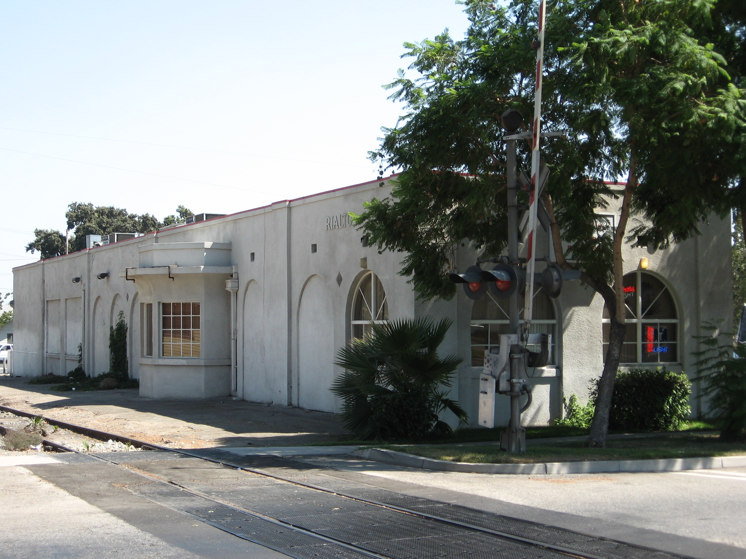 Pacific Electric Railway depot in Rialto, California